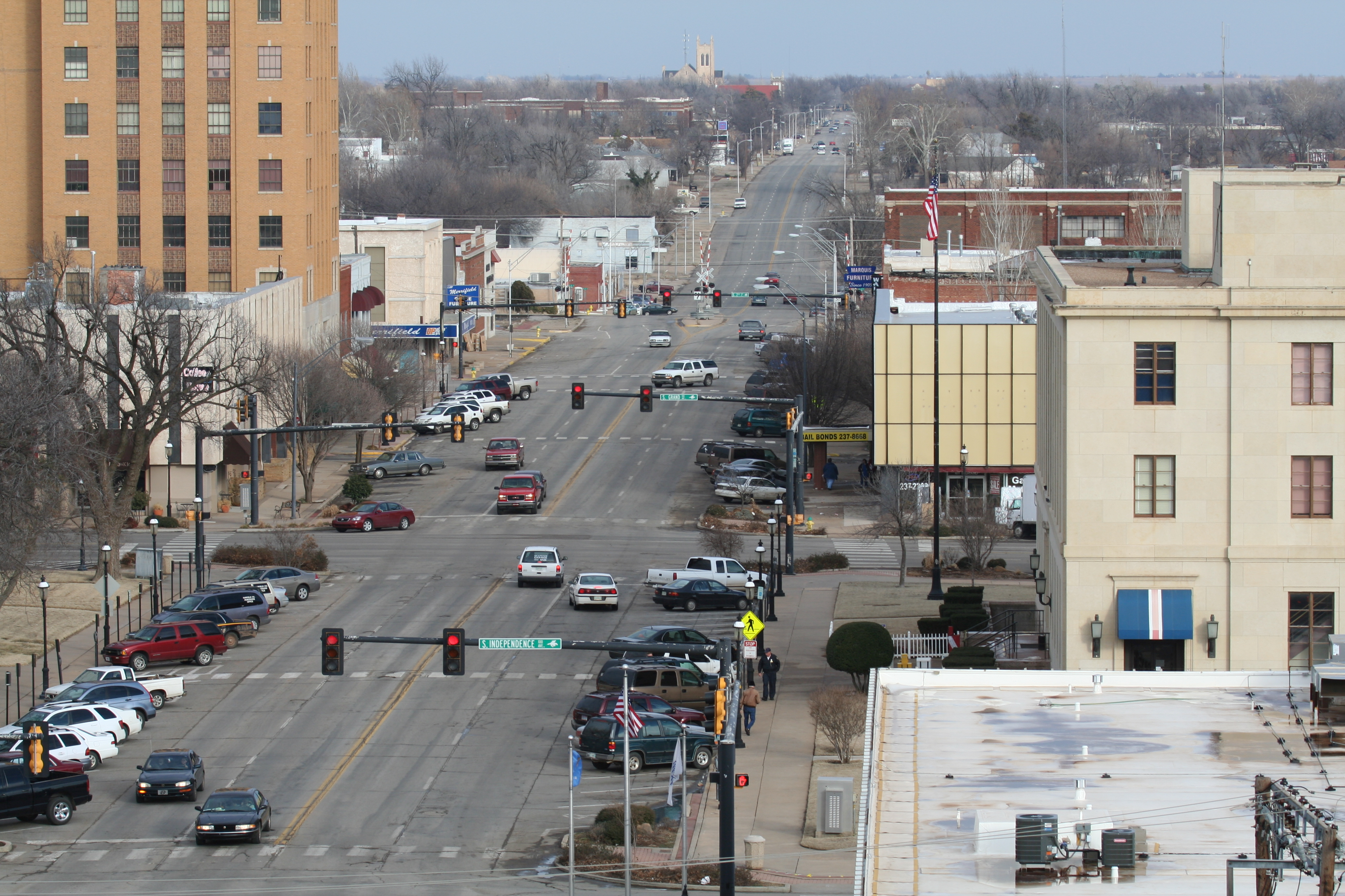 Looking east down Broadway Ave. from Washington